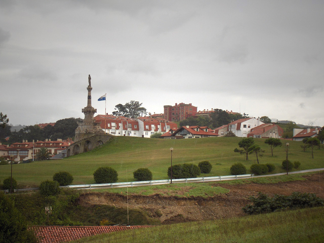 Comillas, Spain; view on Comillas, the statue for the Marques de Comillas and the Pontifical University